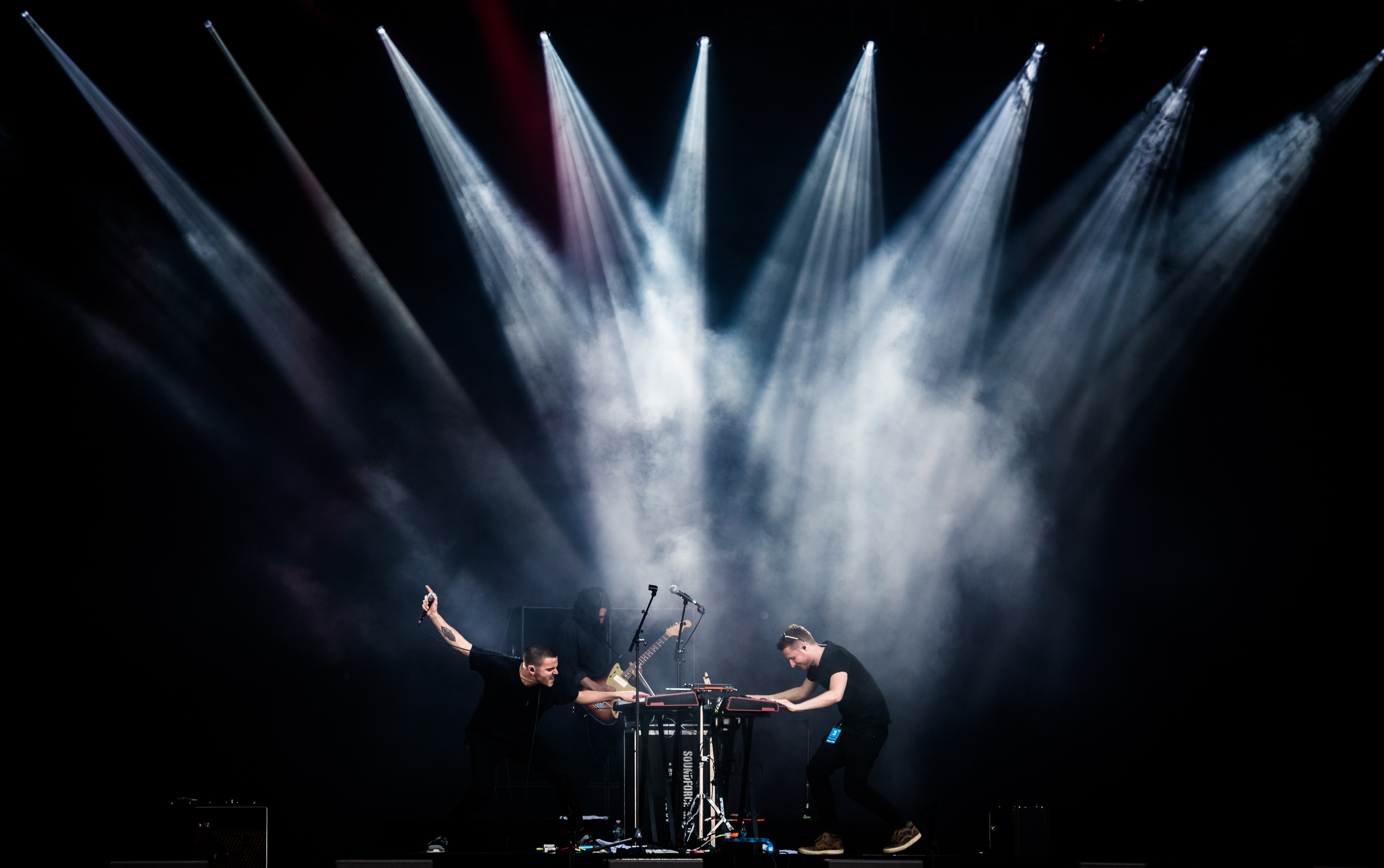 Alex Vargas - Rock am Ring 2017